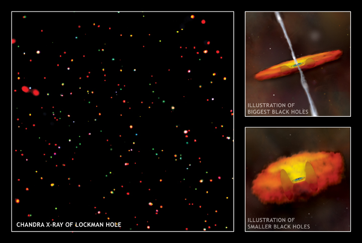 The Chandra mosaic of a region of the sky known as the Lockman Hole (named after astronomer Felix Lockman, who discovered that this region of the Galaxy is almost free of absorption by neutral hydrogen gas) shows hundreds of X-ray sources. The high spatial resolution of Chandra allowed for the identification of many supermassive black holes in this image. The Lockman Hole data and two other surveys with Chandra and the Hubble Space Telescope have provided a reasonably accurate census of supermassive black holes in the Universe. Astronomers have used this census to study the rate at which these enormous black holes grow by pulling in gas from their surroundings.